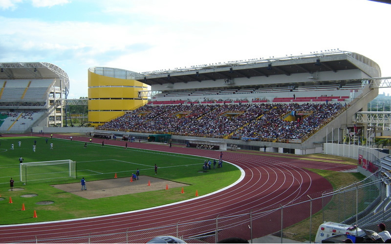 Tribuna Principal del CTE Cachamay / Main Tribune of CTE Cachamay